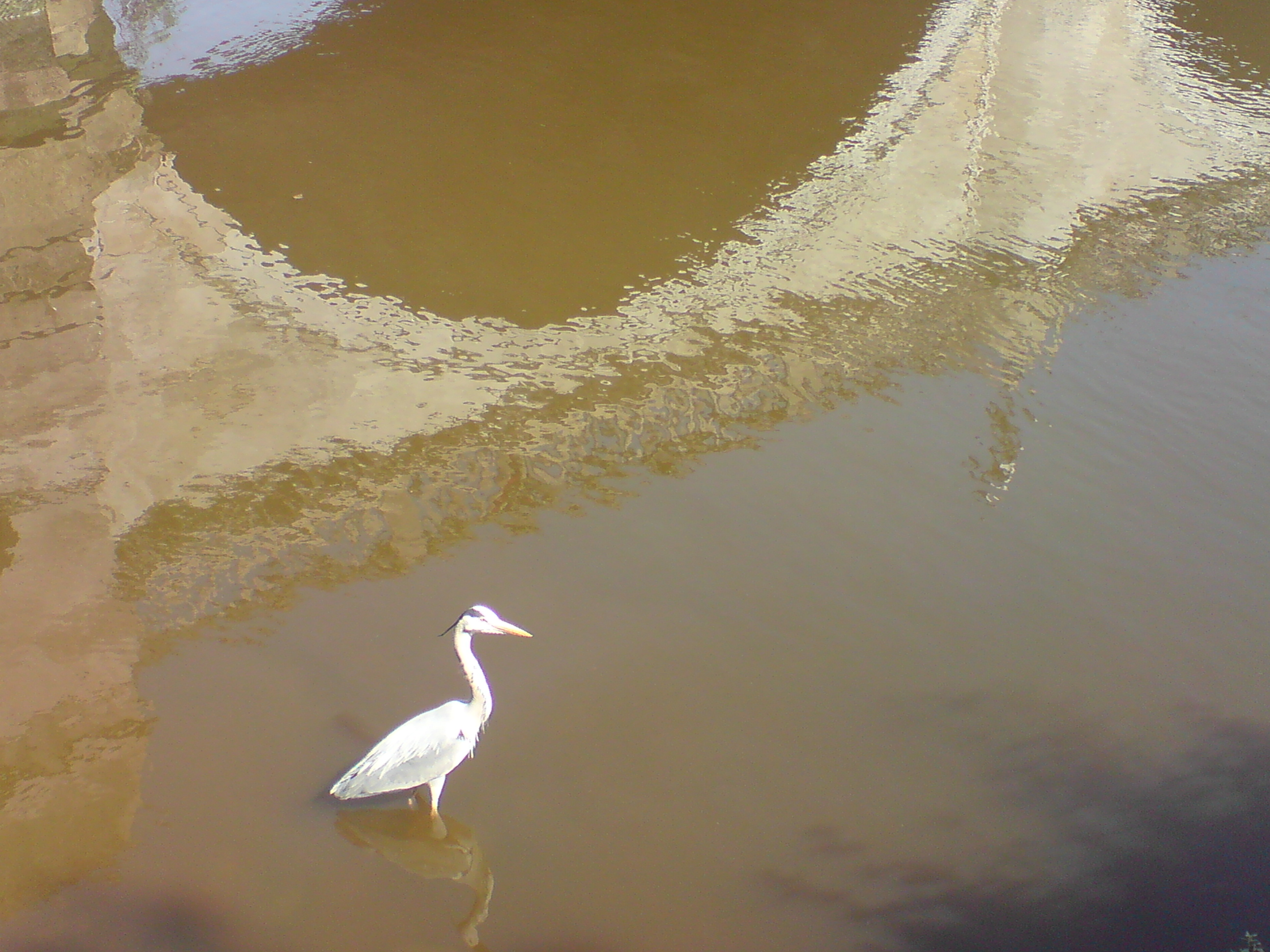 A Grey Heron (Ardea cinerea) at Richmond Bridge, London, England.